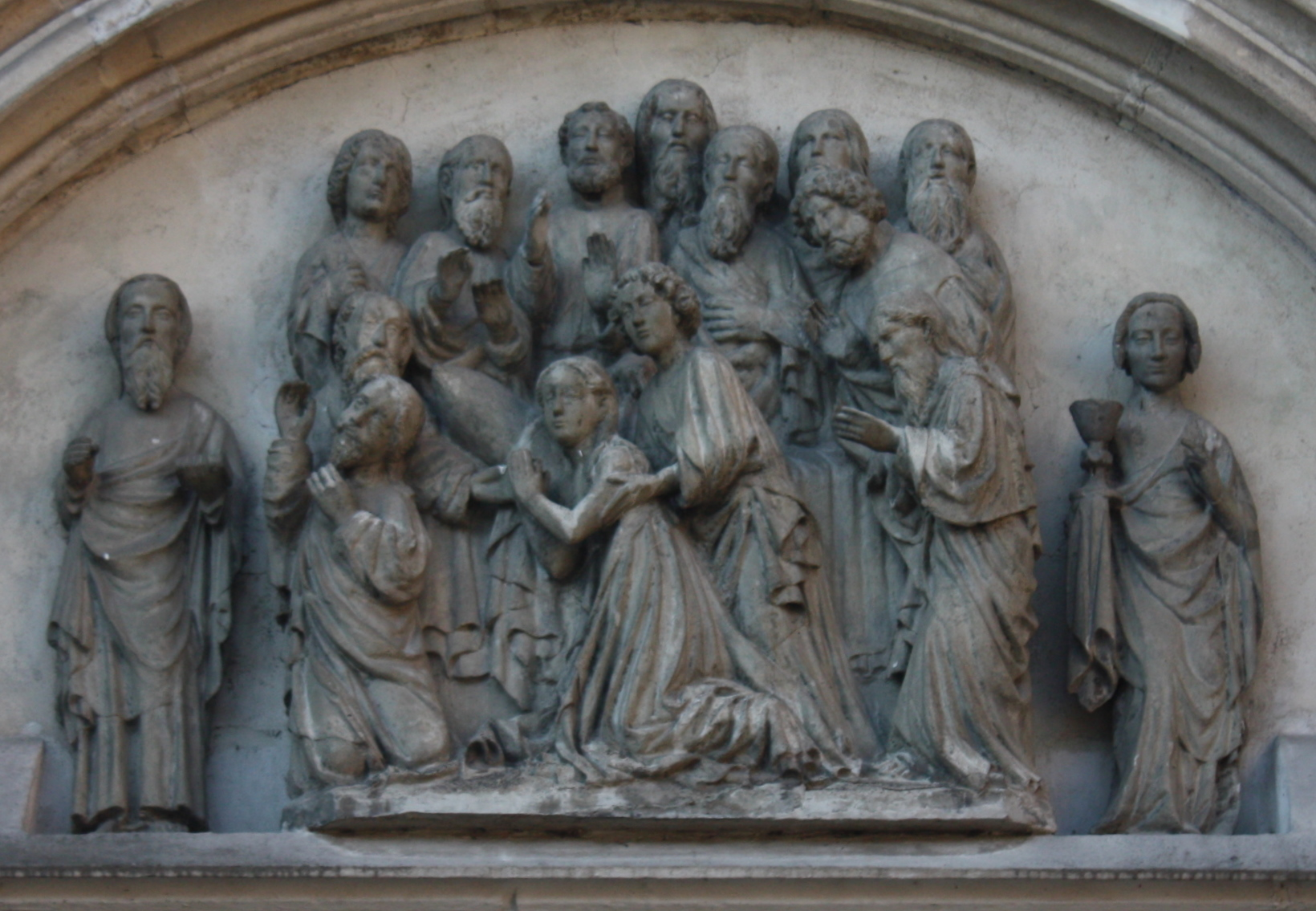 Gdańsk, St. Mary Church, Dormition of Virgin Mary XV c.